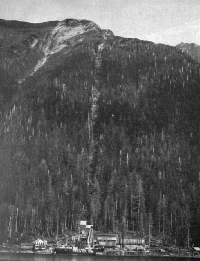 Smelter, tramway, and mine workings on Copper Mountain, Prince of Wales Island, Alaska. Looking north from Copper Harbor.